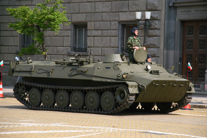 Bulgarian MT-LB on St Georges Day parade (Day of the Bulgarian Army).